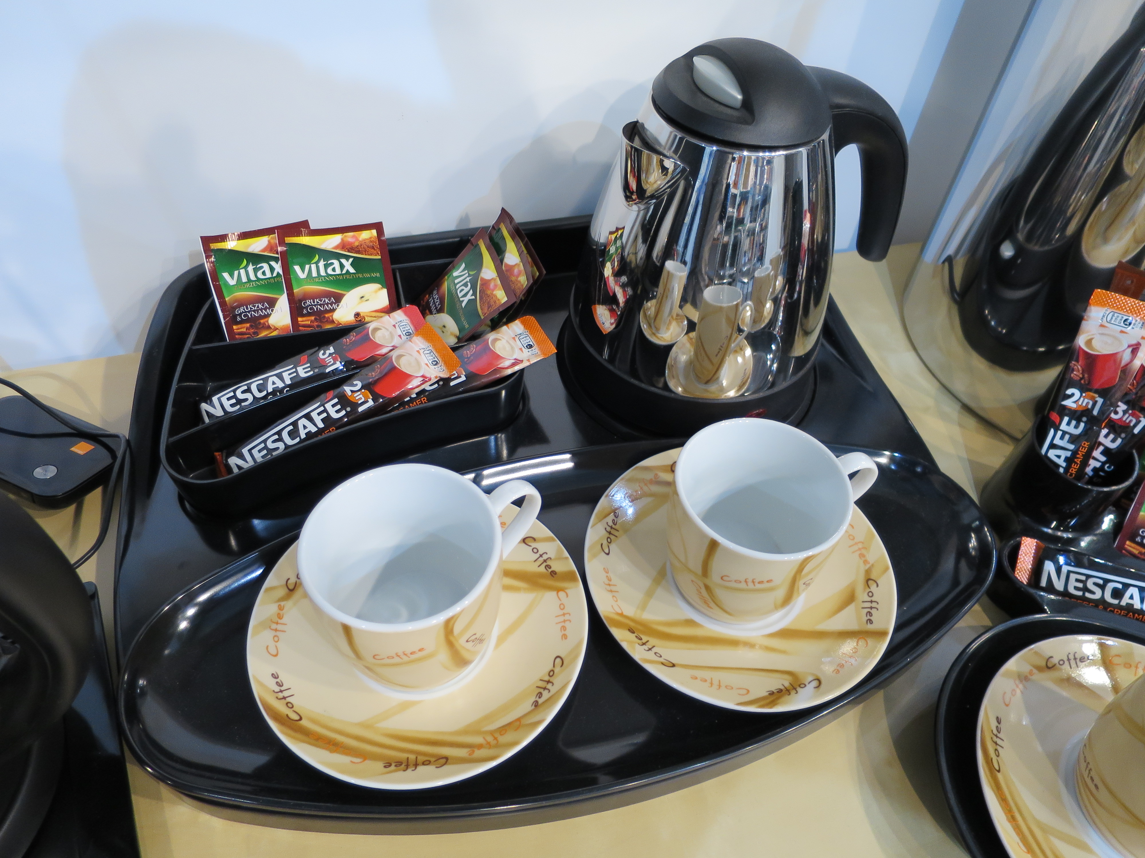 Zestaw kawowy Corby The making of this document was supported by Wikimedia Polska Association, within Wikigrant no. WG 2015-48. English | polski | +/−